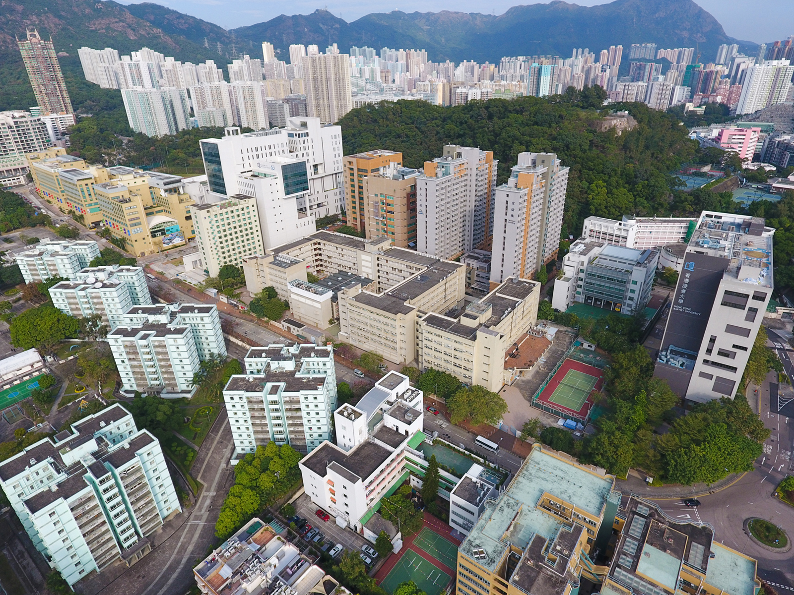 HKBU Baptist University Road Campus Overview